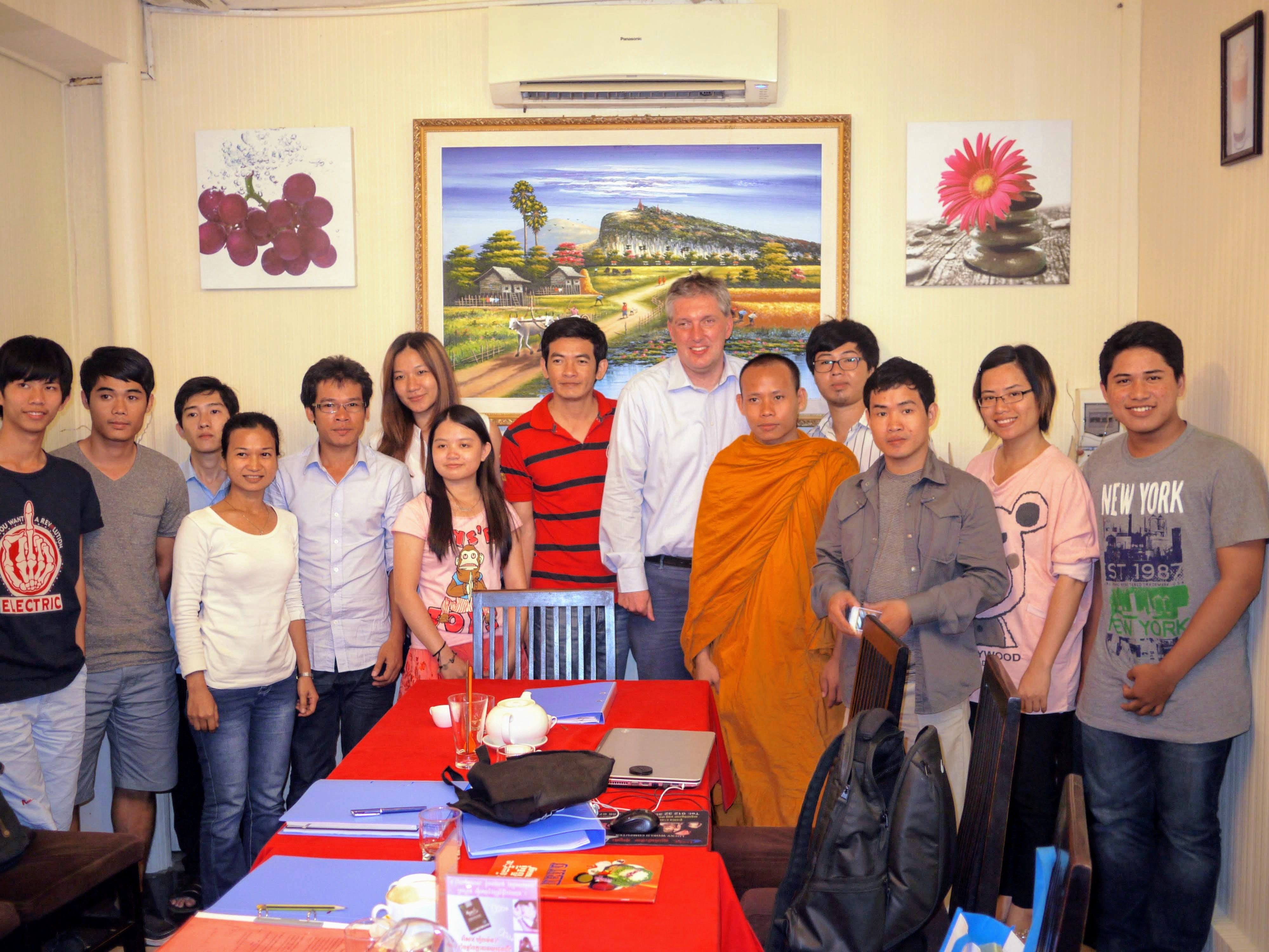 Politikoffee is a youth forum that meets on a weekly-basis in Phnom Penh, Cambodia. It was founded by Ou Ritthy and three other colleagues in 2011. This photograph was taken at one of its early meetings held on 31 August 2013, with Mr Denis Schrey of Konrad Adenauer Stiftung as the guest speaker.